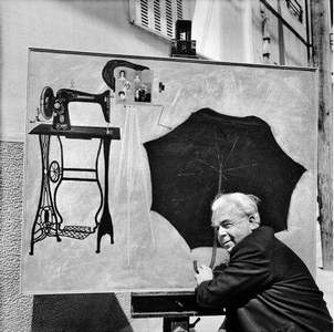 Spyros Vasiliou